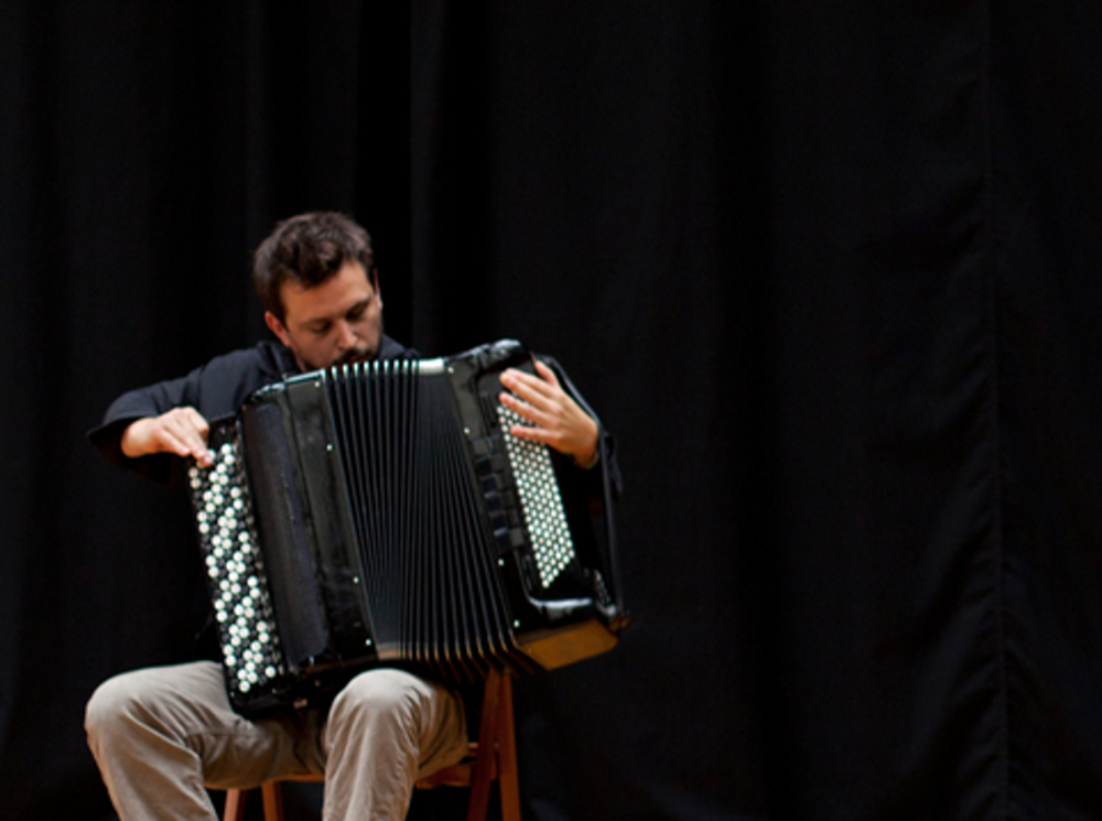 Jonas Kocher in concert